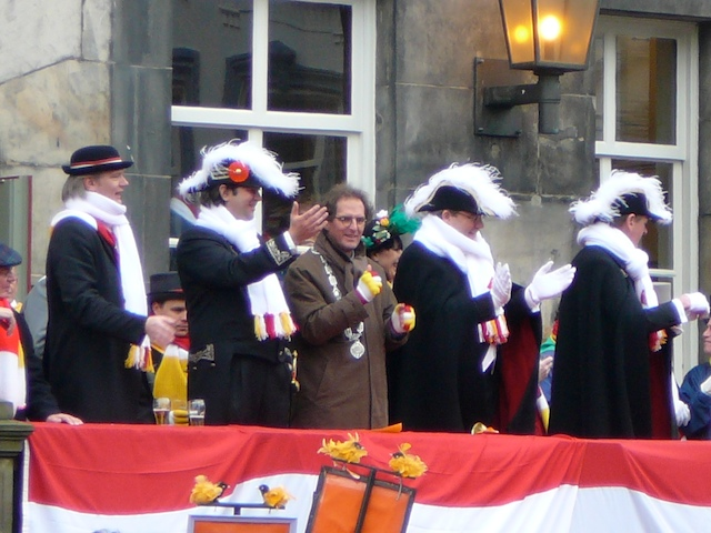 Ton Rombouts, Peer vaan den Muggenheuvel tot den Bobberd and Prince Amadeiro XVV on the steps of the City Hall in 's-Hertogenbosch during Carnval 2007